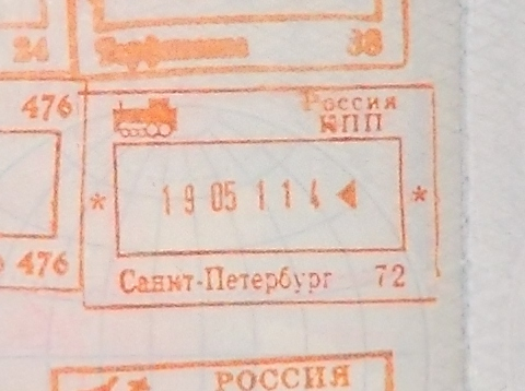 Russian stamp obtained on the Allegro train